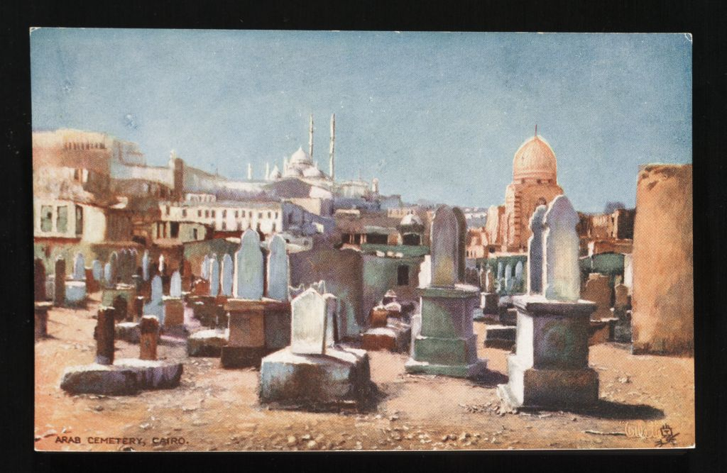 Large tombstones in foreground, with mosques and minarets as background